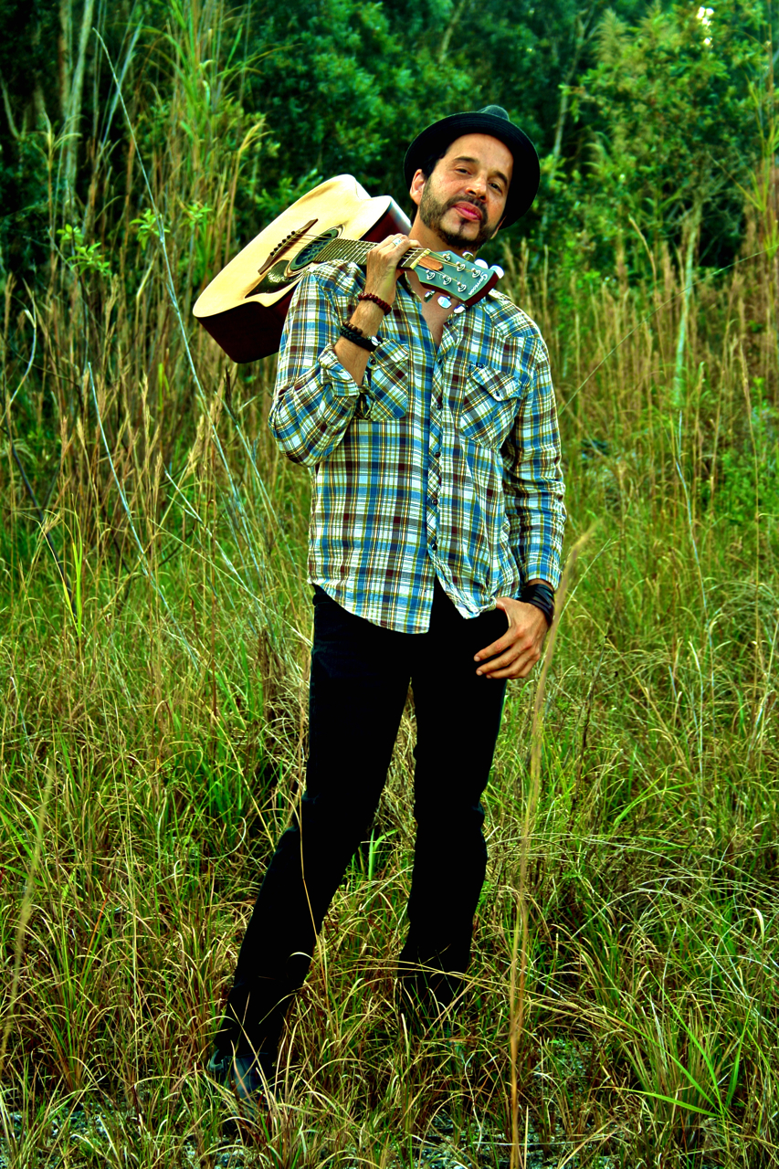 Promotional Pictures for Elsten Torres 2013 Tour